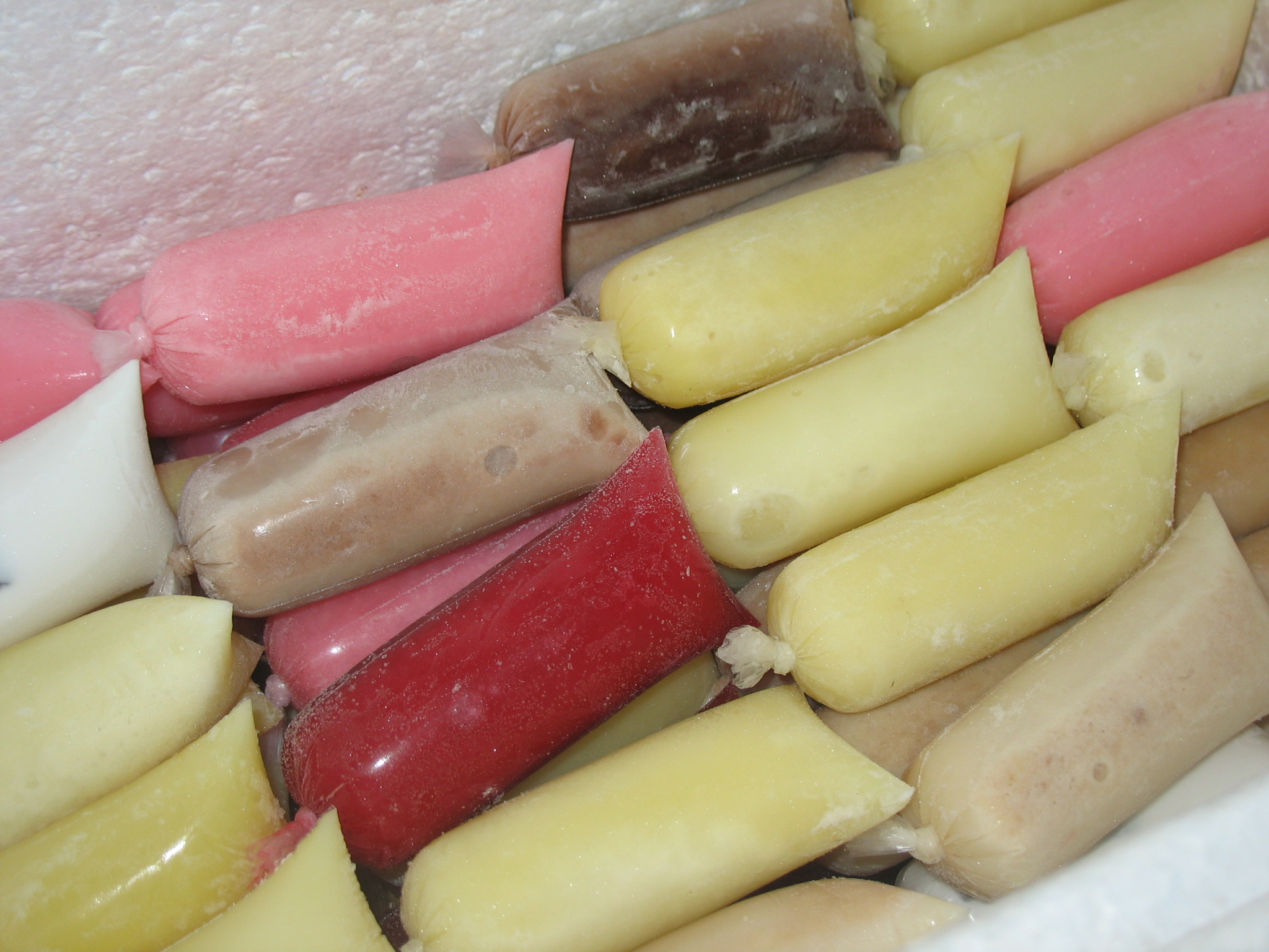 Barranquilla - Bolis in an polystyrene cool box.